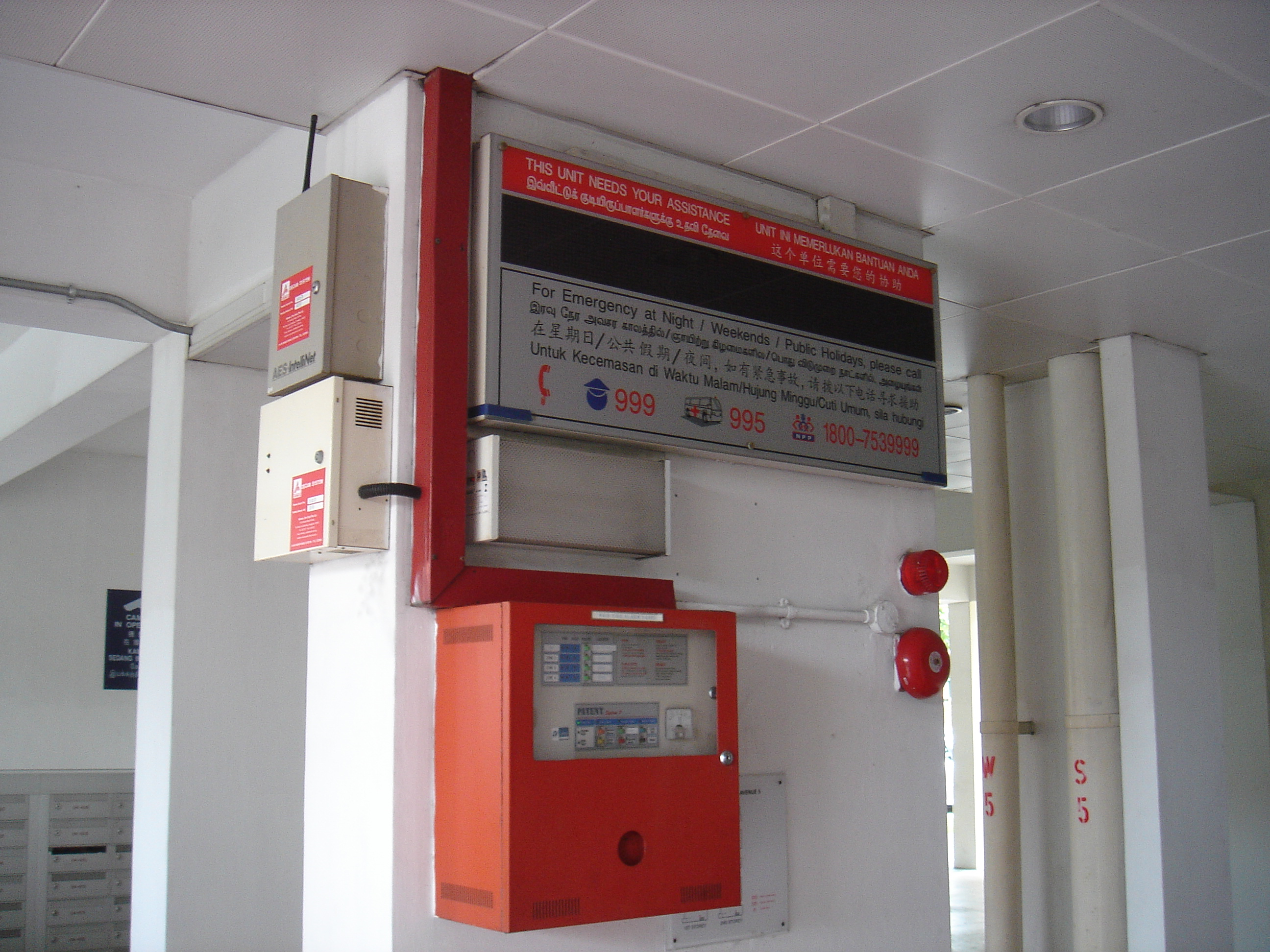 Alarm system in a Studio apartment block in Yishun, Singapore.